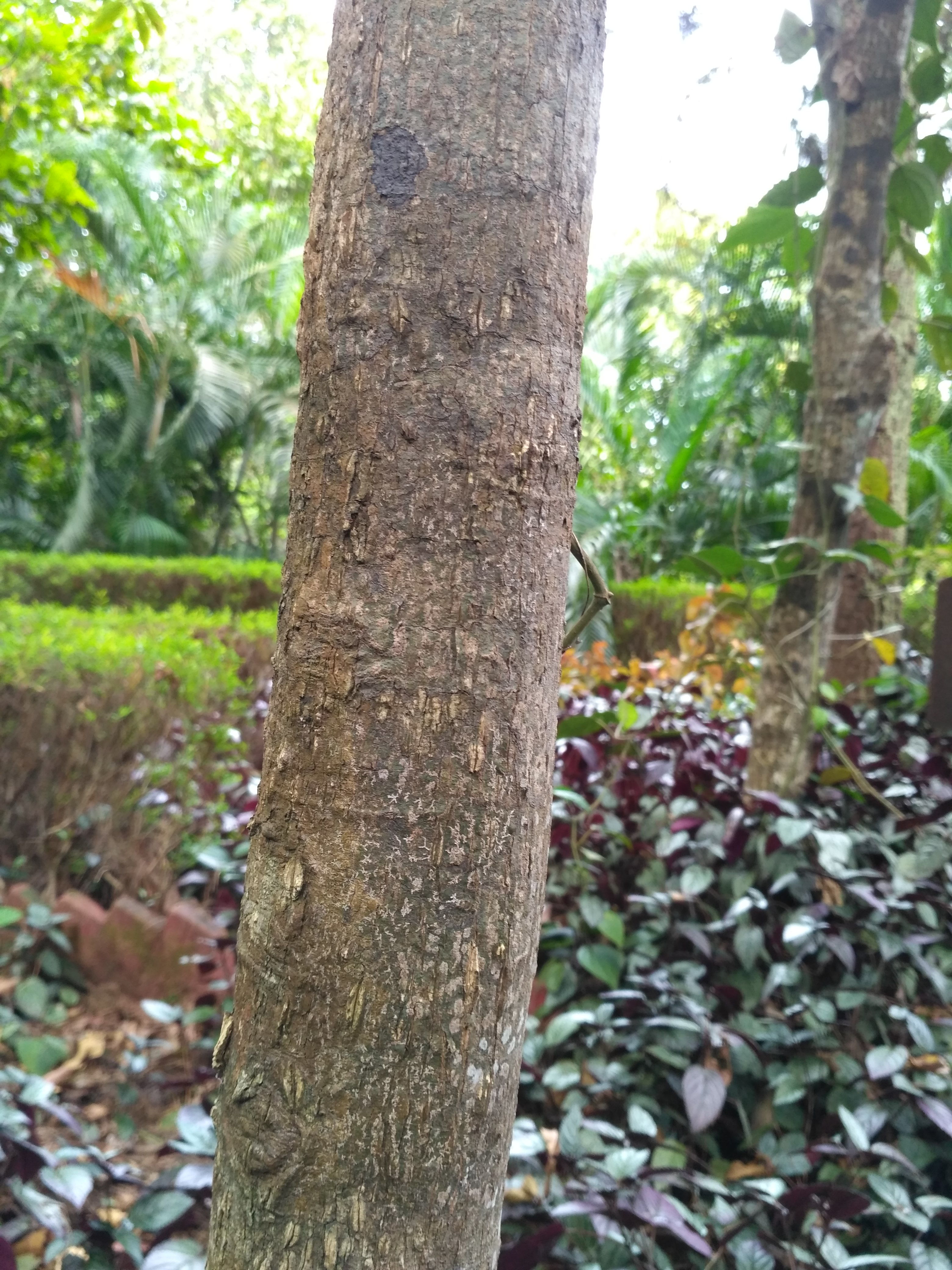 This is a plant named Mamsarohini which has been captured from Alvas Shobhavana, Mijar